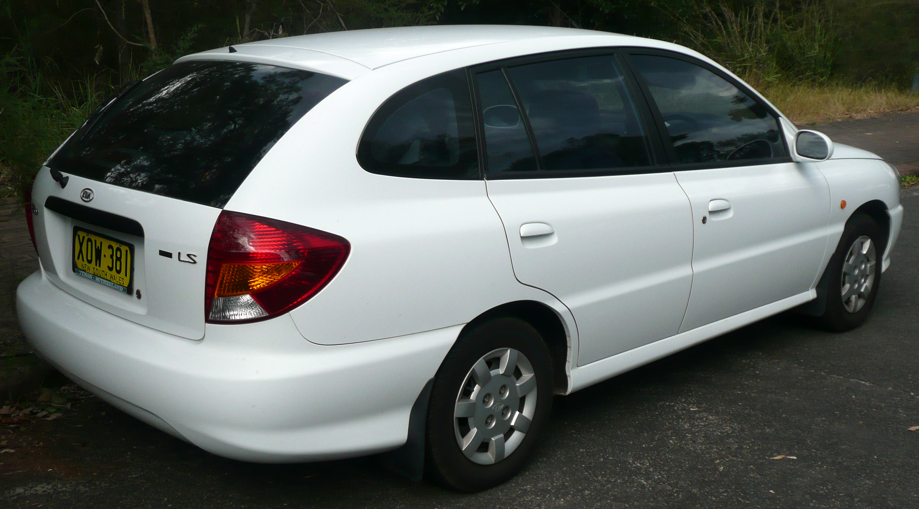 2001 Kia Rio (DC) LS hatchback. Photographed in Audley, New South Wales, Australia.